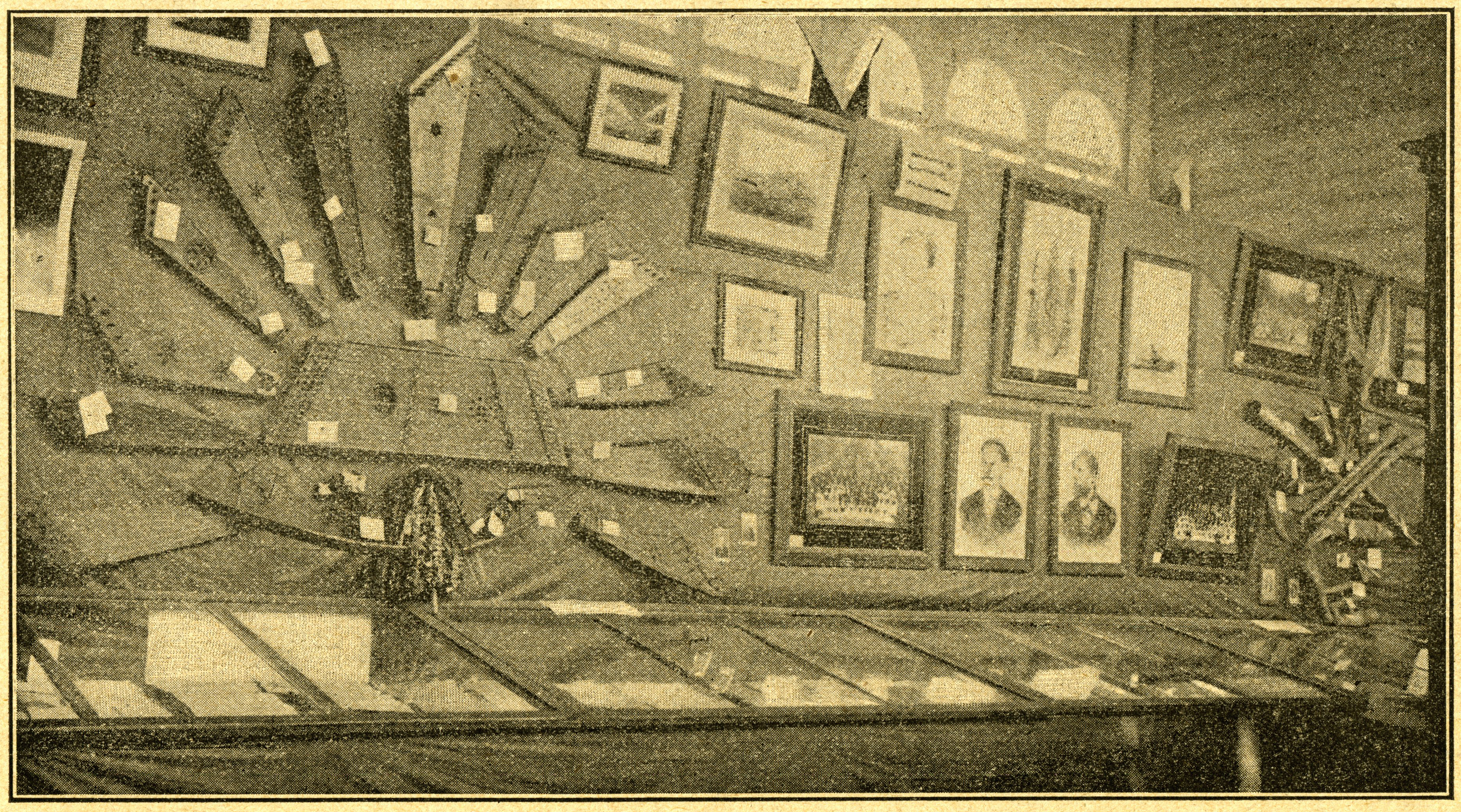 Section "Music and singing" at the Latvian Ethnographic Exhibition. Photographed by Emanuel von Eggert. Monthly magazine "Austrums", 1896.